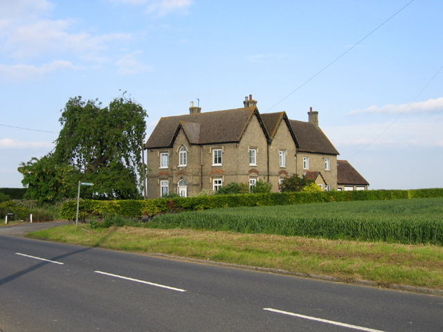 Manor Farm House, Eyeworth, Beds. on the High Street.